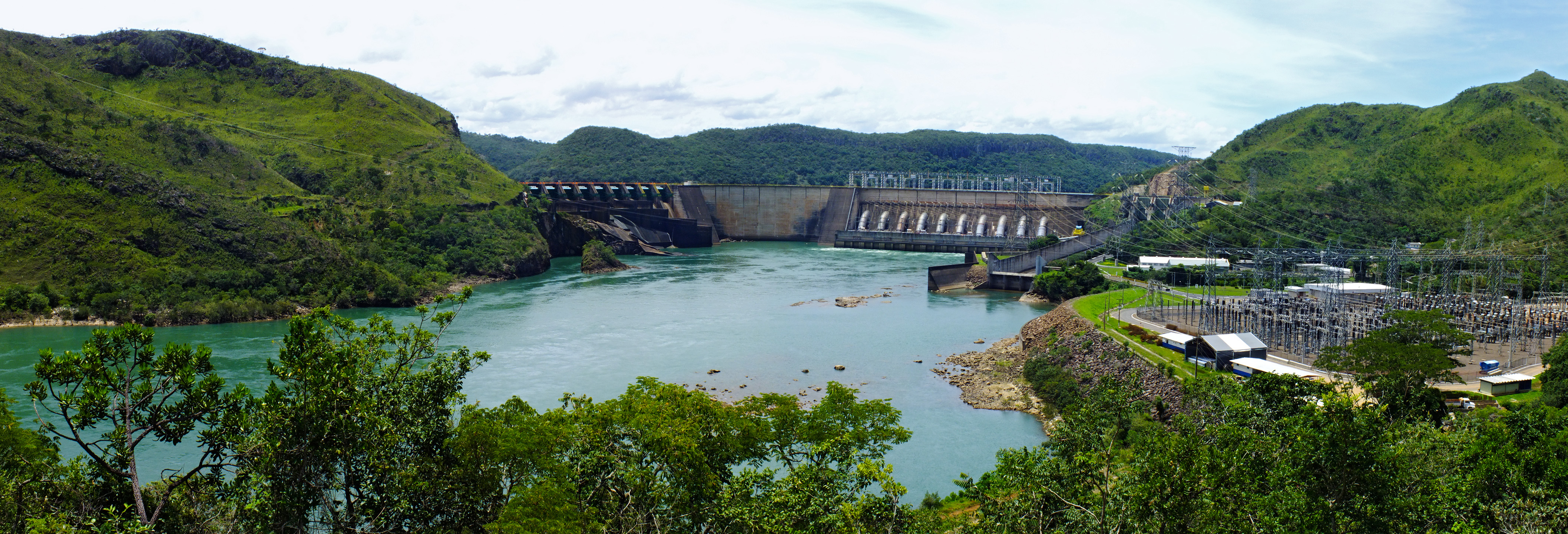 Mascarenhas de Moraes Dam in Ibiraci, Minas Gerais, Brazil (formerly known as Peixoto Dam). Built by Companhia Paulista de Força e Luz (a regional power company) and opened in 1957, Peixoto was the first major hydroelectric plant built in the Rio Grande. Acquired by Furnas Energia in 1973, it has an installed capacity of 476 MW and was recently retrofitted.